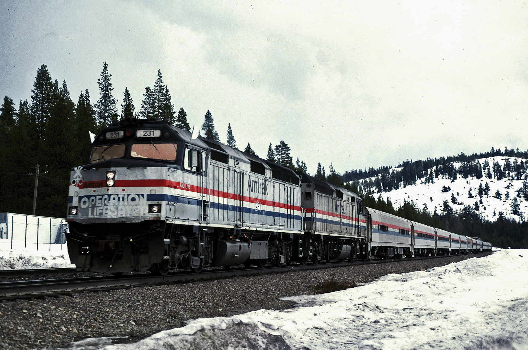 AMTK 231 Fun Train Soda Spgs Cr